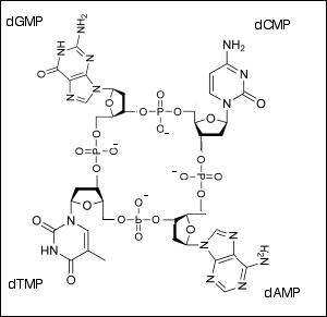 I (John Schmidt) made this diagram for Wikipedia.